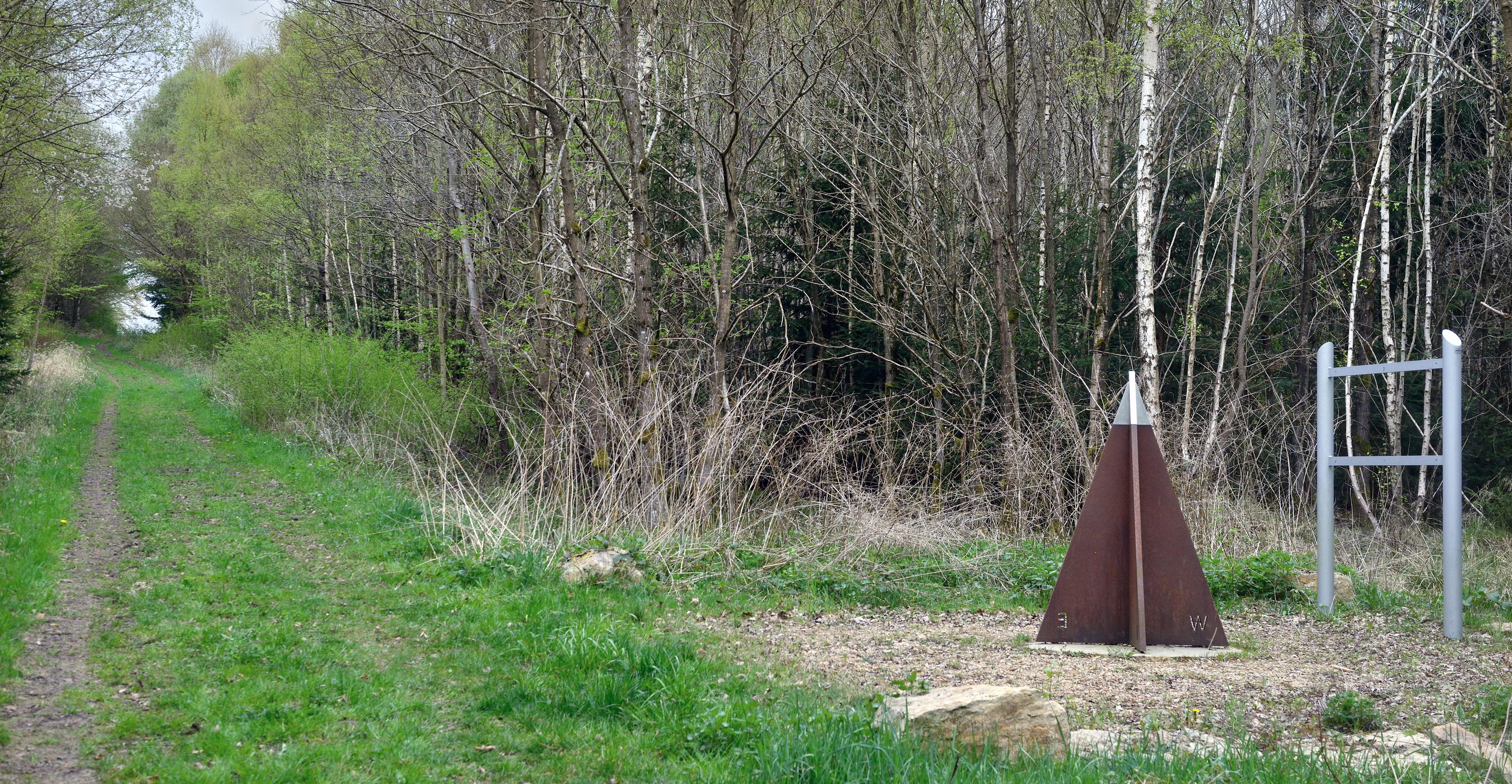 Geographical centre of Luxembourg in the NW of Pettingen, commune of Mersch.